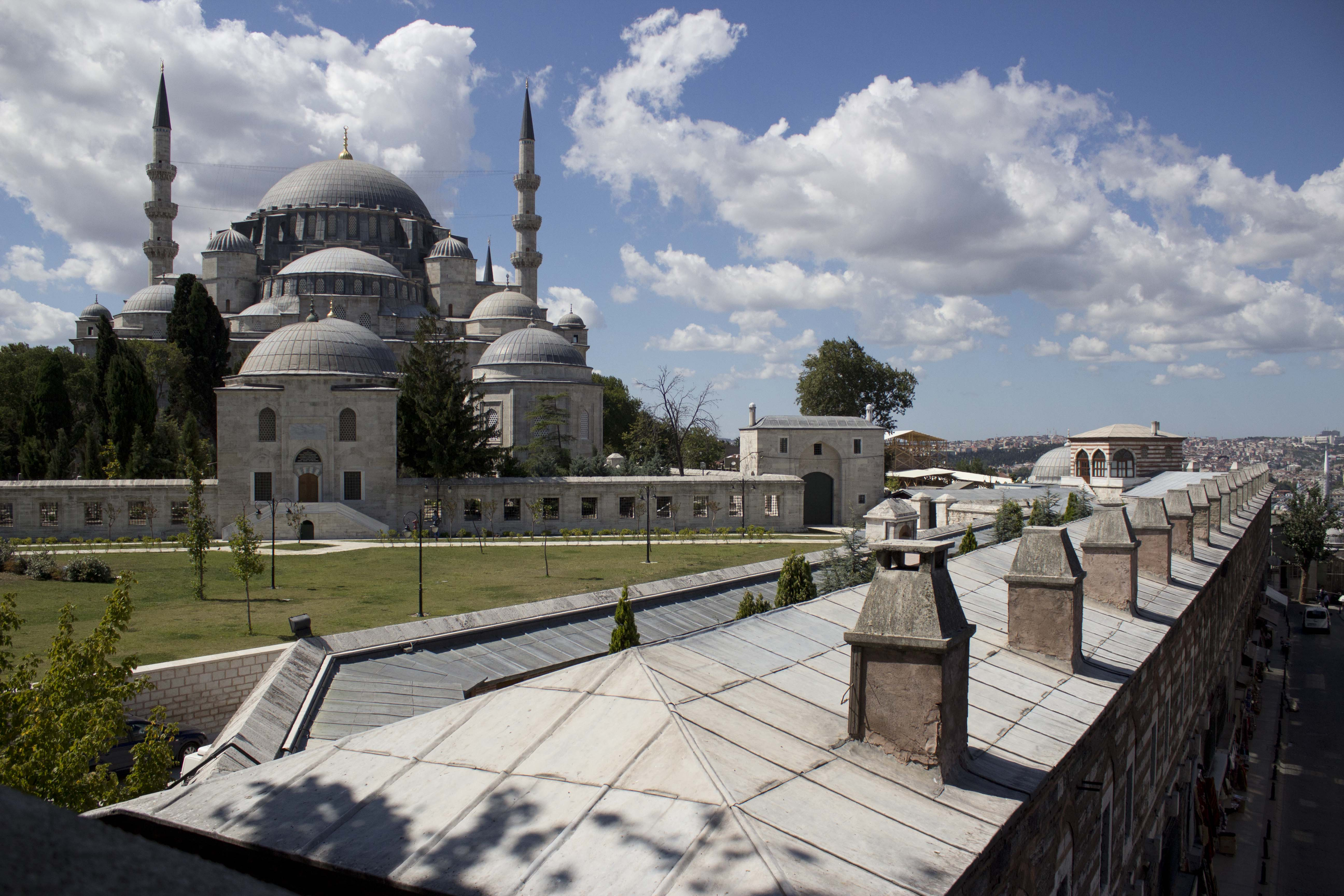 Süleymaniye Mosque